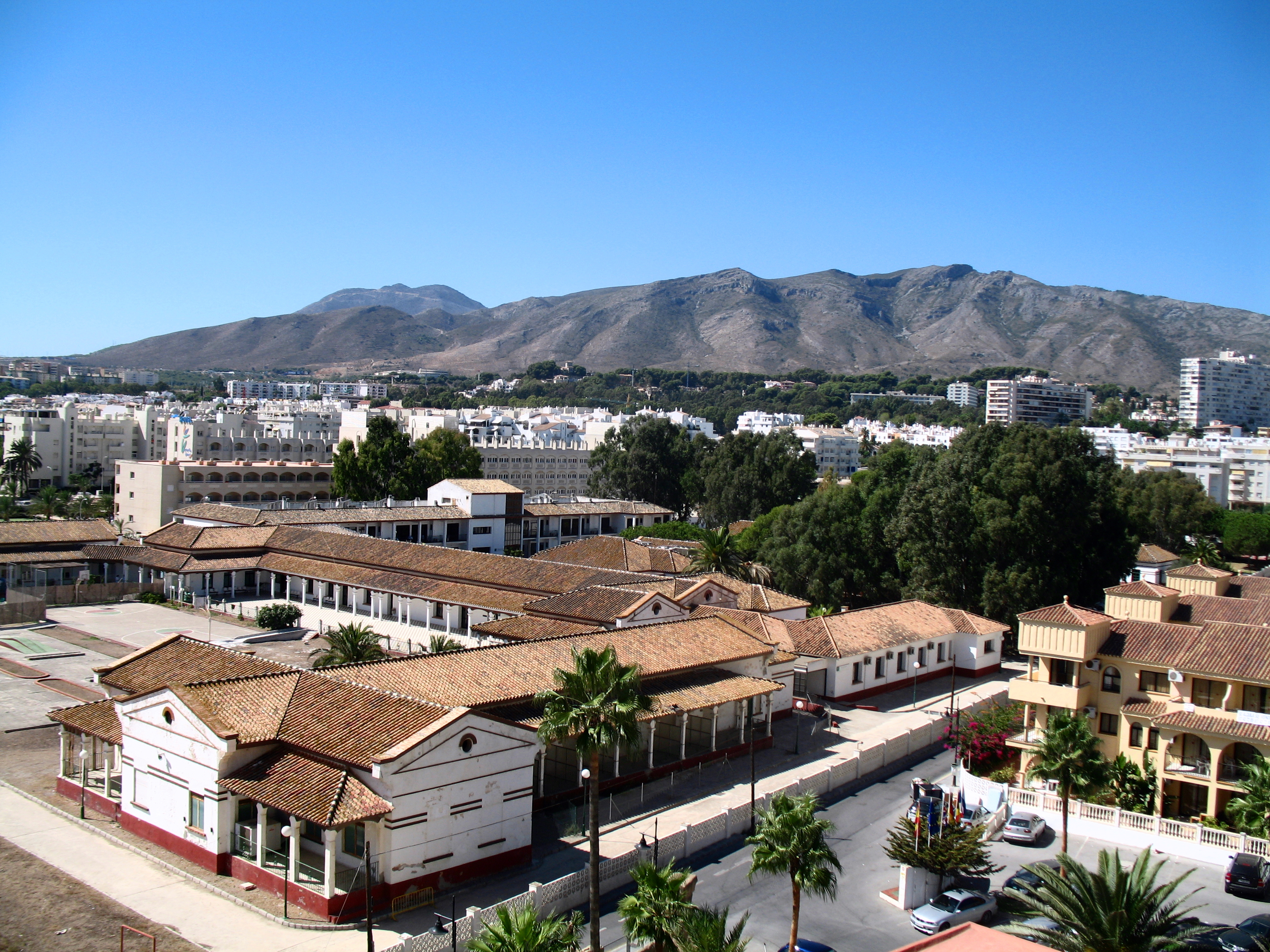 View of Torremolinos towards the Sierra de Mijas, Málaga, Spain